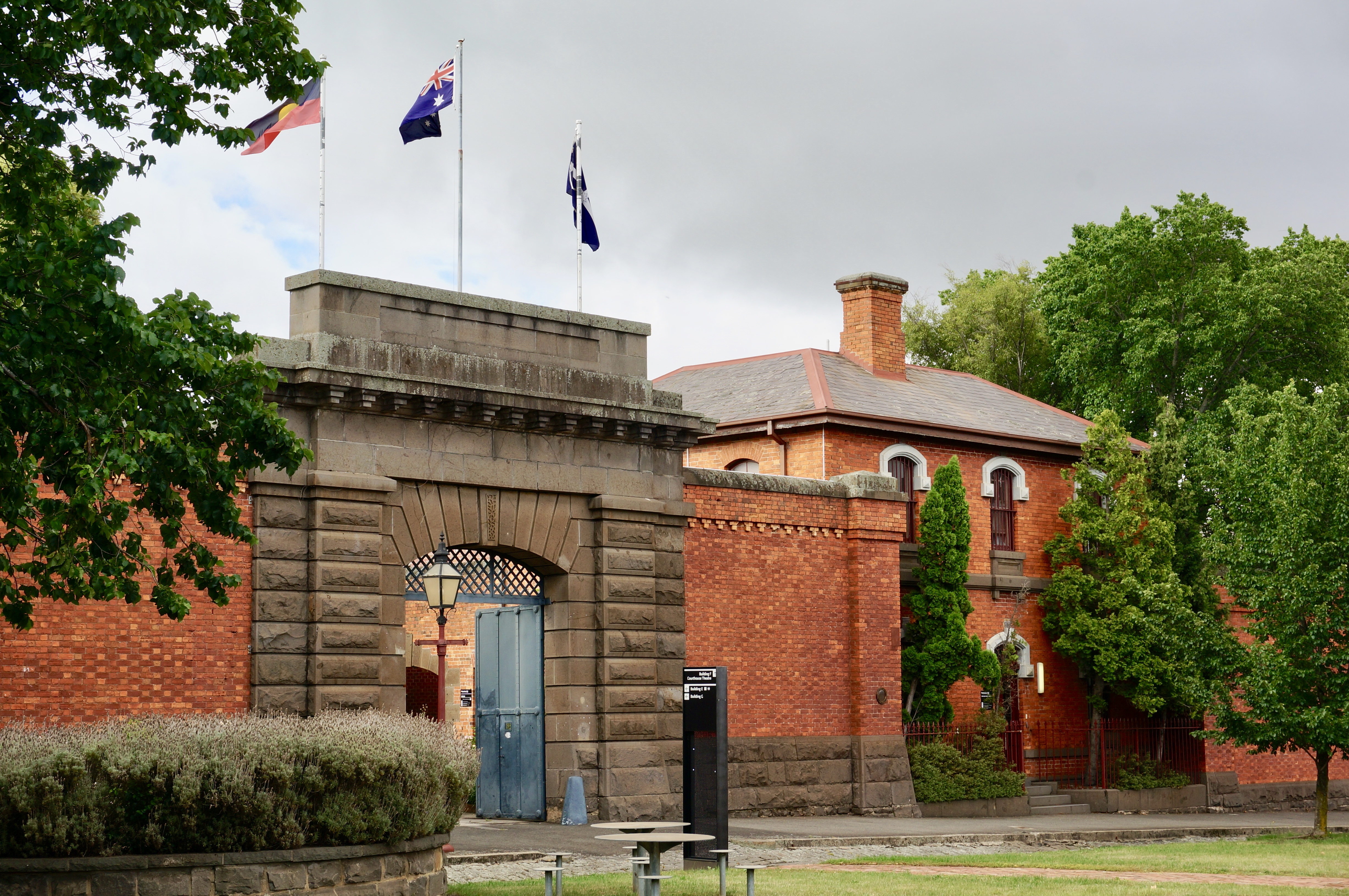 Old Ballarat Gaol, CRCAH building.